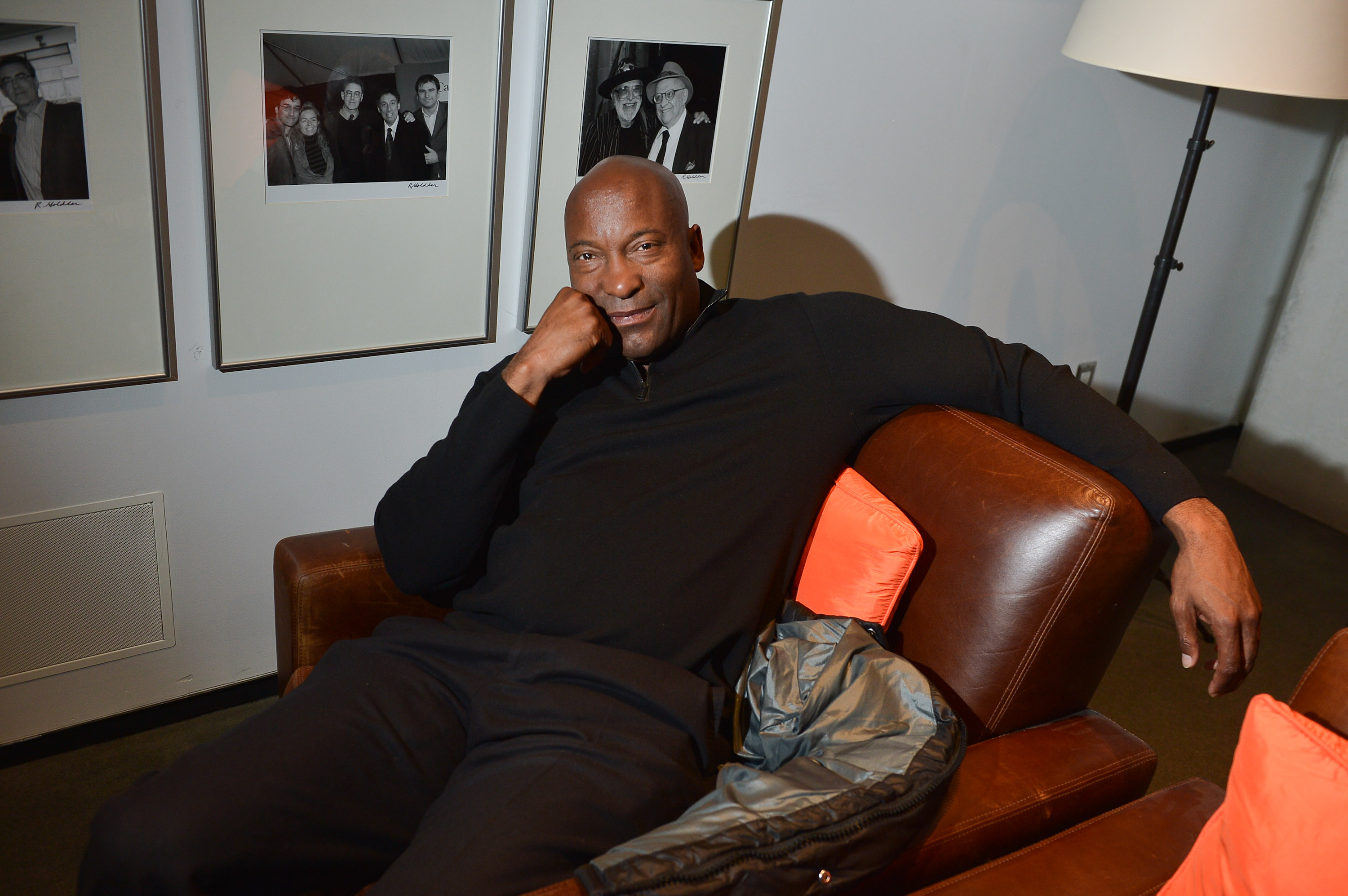 Presented by TD and BAND (Black Artists' Network in Dialogue), Clement Virgo Productions and CFC. and hosted by Garvia Bailey (CBC Radio 1), we took a look at Singleton’s influential body of work (BOYZ N THE HOOD, POETIC JUSTICE, SHAFT, BABY BOY) and talked with the iconic filmmaker about his inspirations, his filmmaking process, and reflecting the black experience in film. Singleton's 1991 film debut Boyz N the Hood received Academy Award® nominations for Best Director and Best Screenplay. At 24, he became the youngest person ever nominated for the Best Director Oscar®, as well as the first African-American to be nominated. This event was part of TD's Then and Now series, an inspiring and entertaining cultural showcase of one of Canada's prominent communities. The lineup of events includes films, concerts, exhibitions, and performances by a host of Canadian and international artists. For more information, visit: Photo by George Pimentel.